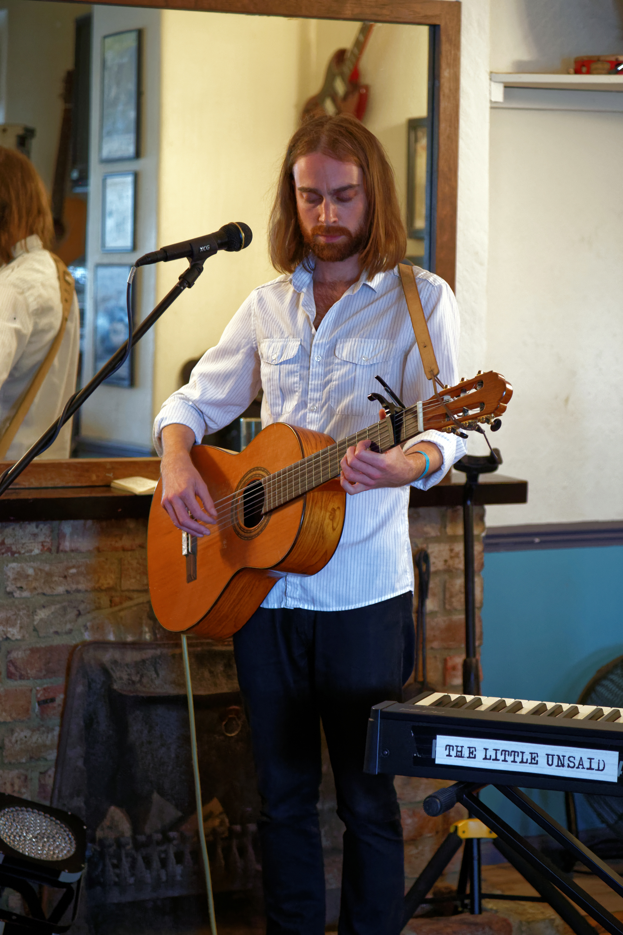 The Little Unsaid (AKA John Elliott), performing an afternoon set at the Wrotham Arms during Broadstairs Folk Week, on 11 August 2016.Camera: Canon EOS 6D with Canon EF 24-105mm F4L IS USM lens.Software: RAW file lens-corrected and optimized with DxO OpticsPro 10 Elite and Viewpoint 2, and further optimized with Adobe Photoshop CS2.